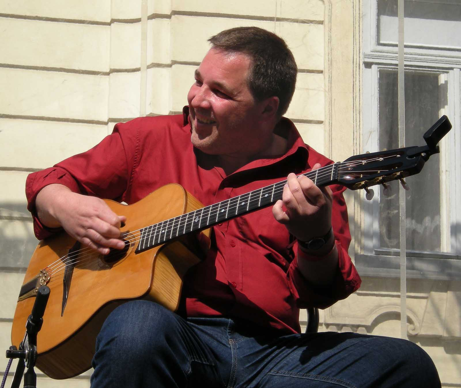 Diknu Schneeberger Trio performing at Vienna's annual Stadtfest. Note: Camera time is set to UTC, which is local time -2.